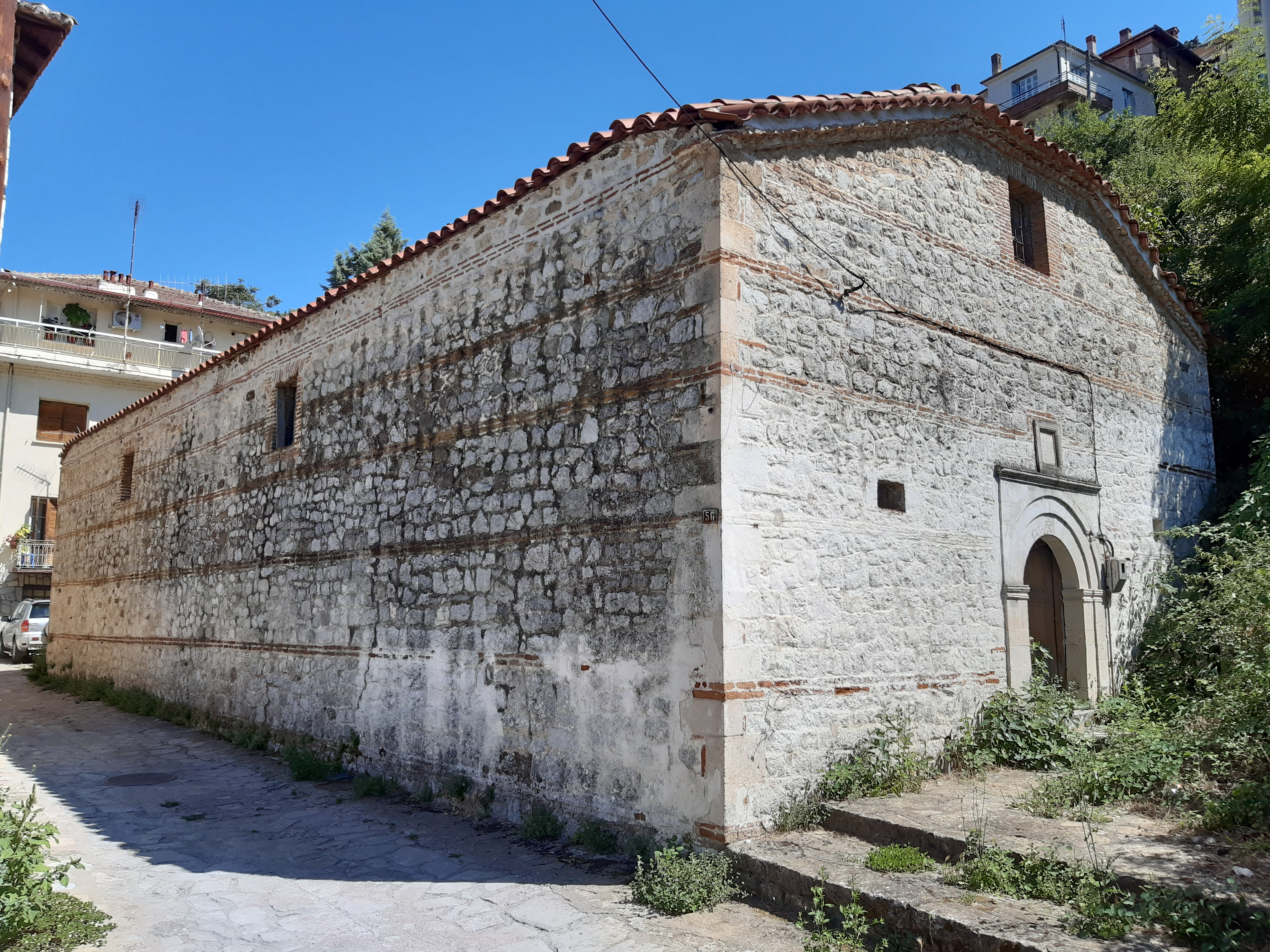 Saint Luke Church in Kastoria in August 2020